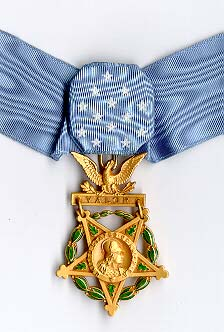 This Army Medal of Honor image was copied from a file at the Marine Corps archives on Quantico Virginia. This image is in the public domain from the United States Marine Corps.